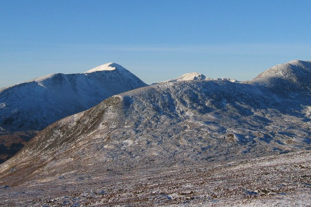 Remote Country. Out of grid shot! This grid square is the ground from the bottom of the glen to the second rise in the immediate ridge. The Magnificent looking hill in the back ground is the very remote Munro "Bidein a' Choire Sheasgaich". Note added by User:Thincat: Bidein a' Choire Sheasgaich is, in fact, the peak slightly right of centre and only just appearing above the near ridge. The snowy ridge to the left winds up to the more prominent peak of Lurg Mhor, somewhat left of centre.